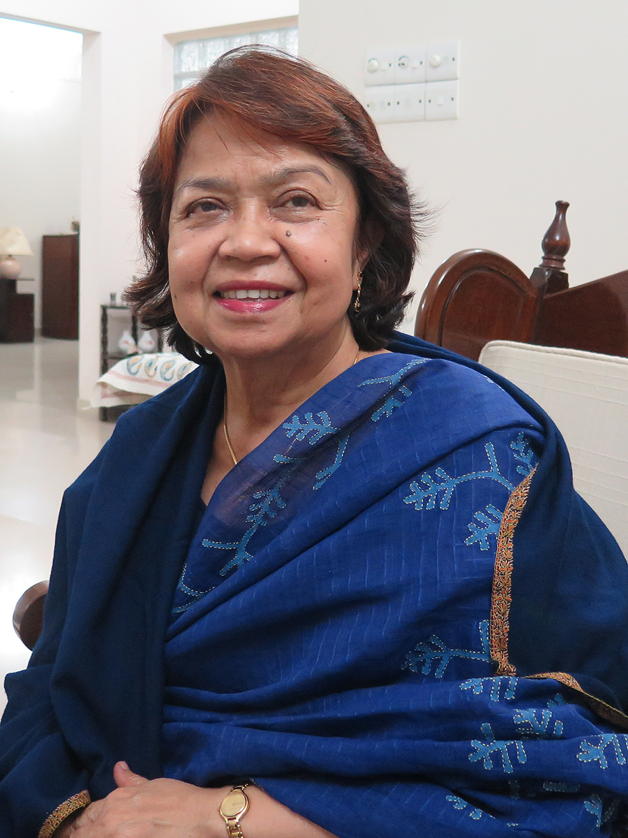 Dr. Rounaq Jahan, a political scientists, feminist leader and author of Bangladesh.